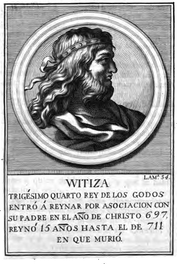 A poster of WITIZA, Visigoth king, n° 34 in the chronological order of the book digitalized by Google since the bookshop in the University of Oxford.